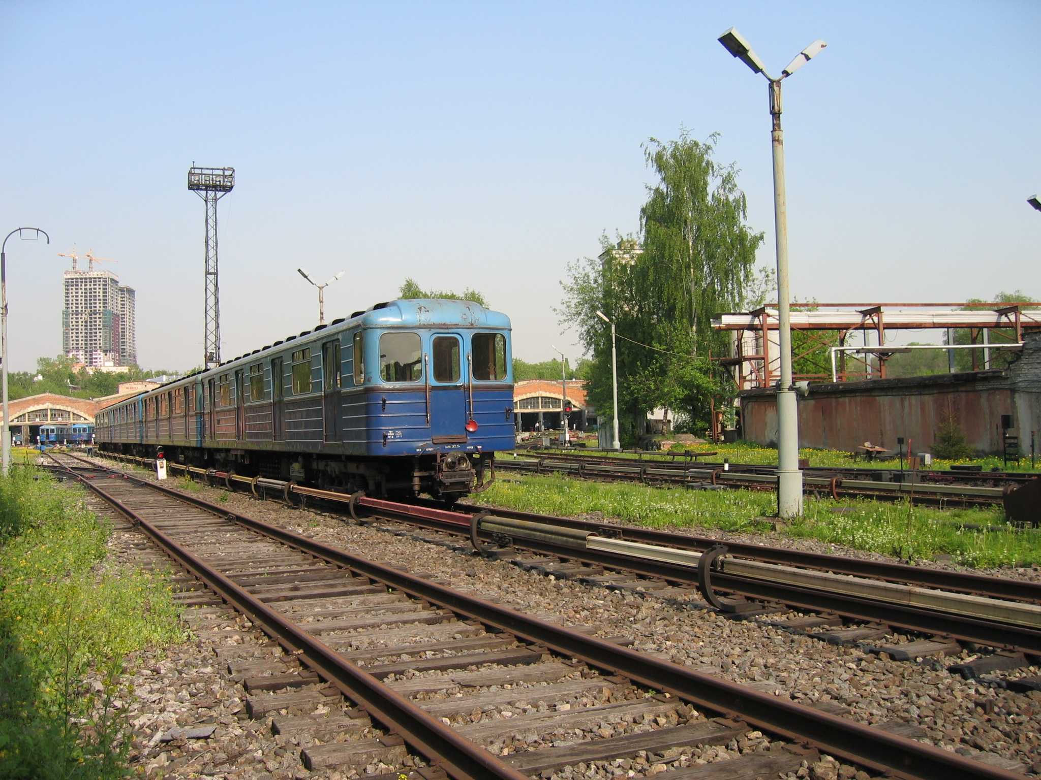 Moscow Metro, Izmaylovo depot